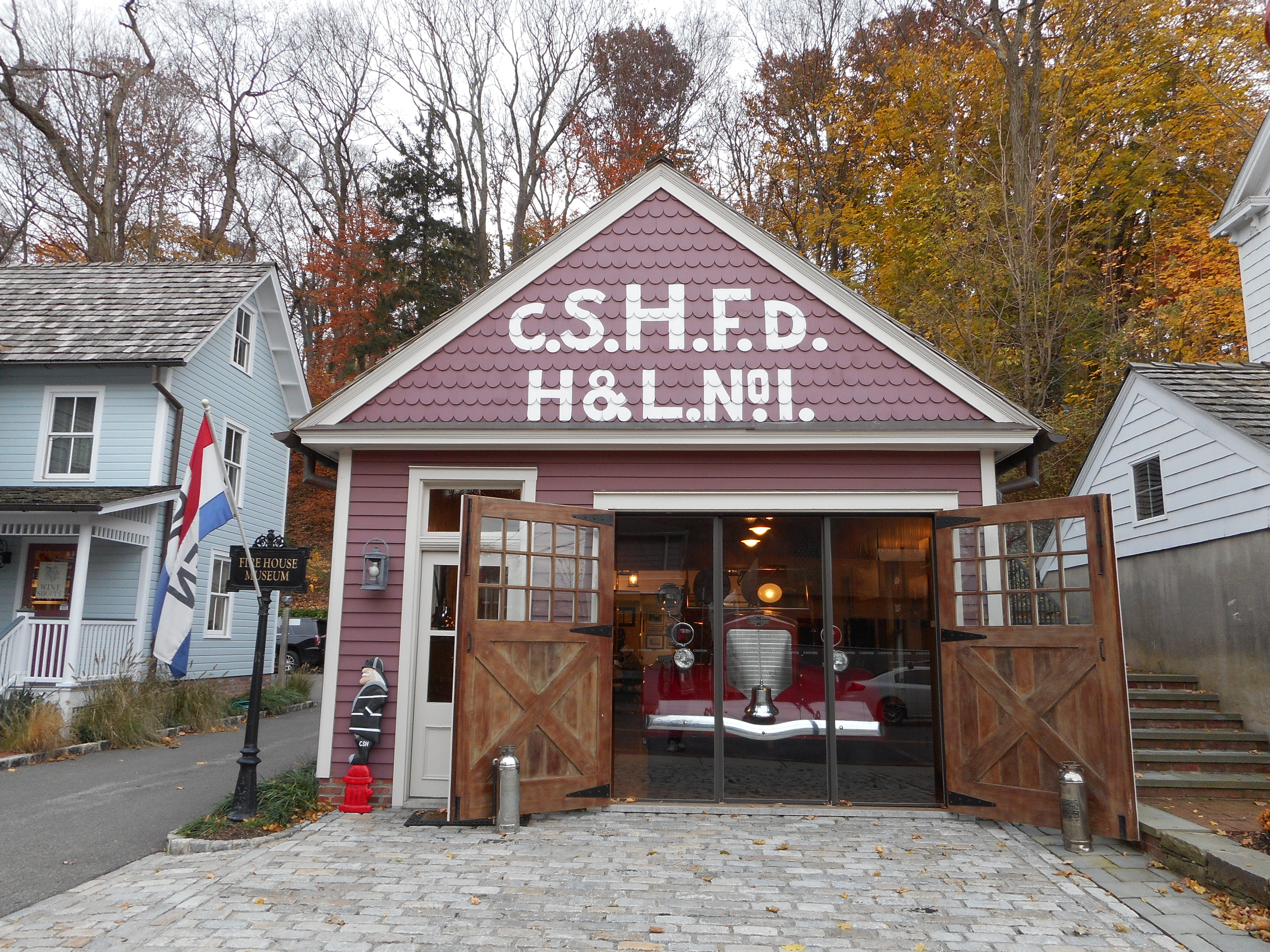 Open front entrance to the Cold Spring Harbor Fire Station Museum in Cold Spring Harbor, New York. My previous attempt to capture this scene of the old fire museum failed, but this was a successful attempt. I'm convinced that this is the real historic Cold Spring Harbor Fire House that's listed on the National Register of Historic Places, so if you have any evidence to the contrary, bring it on. In the meantime, the museum itself was open for tours, and if I didn't have any other commitments that day, I might've stopped in.